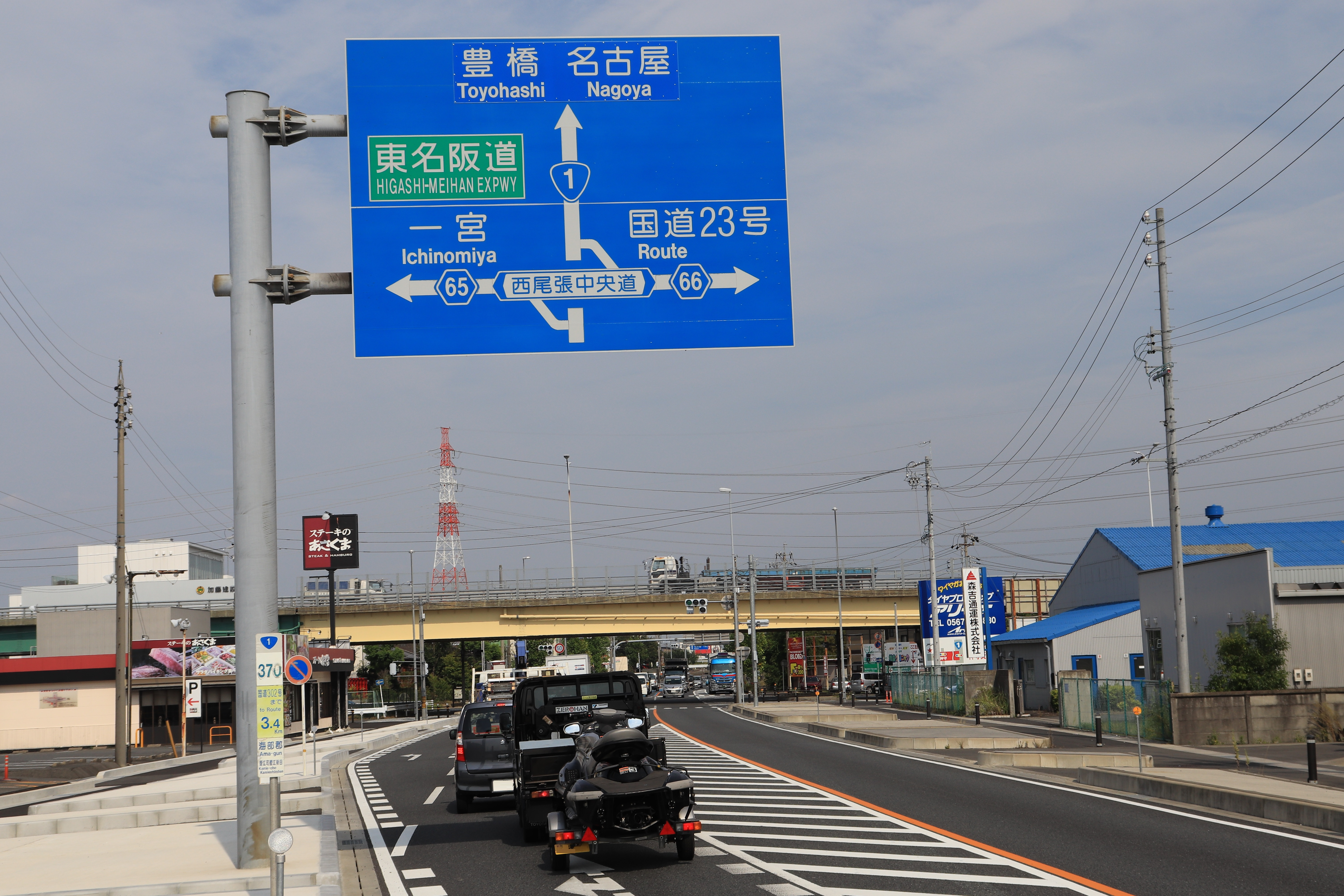 Route 1 Aichi Prefectural Road Route 65 and Aichi Prefectural Road Route 66 in Kanie, Aichi Prefecture, Japan.